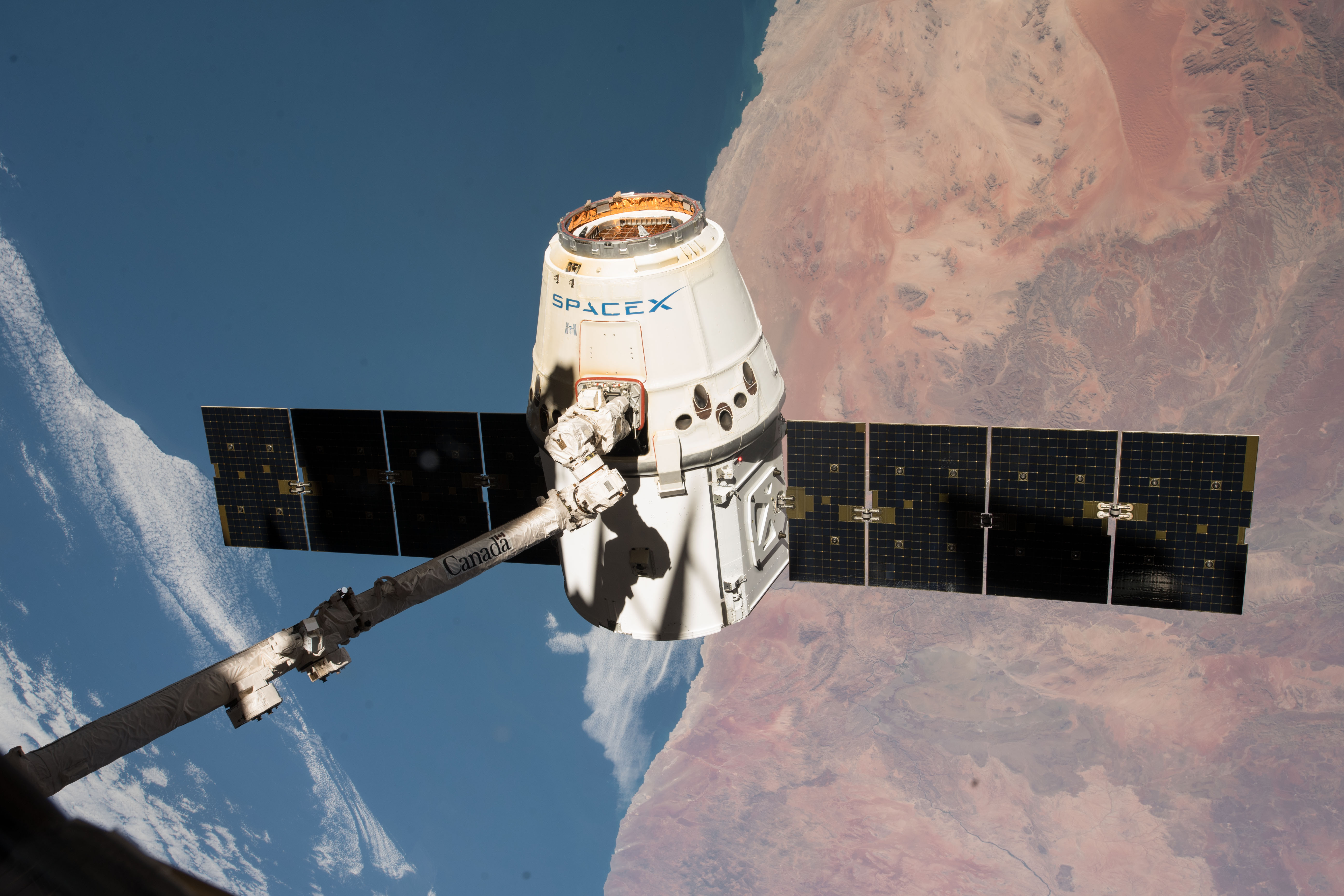 The SpaceX Dragon cargo craft is pictured in the grips of the Canadarm2 robotic arm as the International Space Station was orbiting across the central coast of Namibia. Dragon was later released for its splashdown in the Pacific Ocean off the coast of California on May 5, 2018 ending the SpaceX CRS-14 mission.